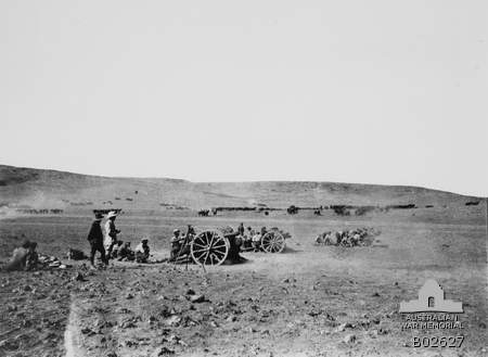 Ottoman Empire: Palestine. Photo of Inverness Royal Horse Artillery in action at Tel el Khuweilfeh.